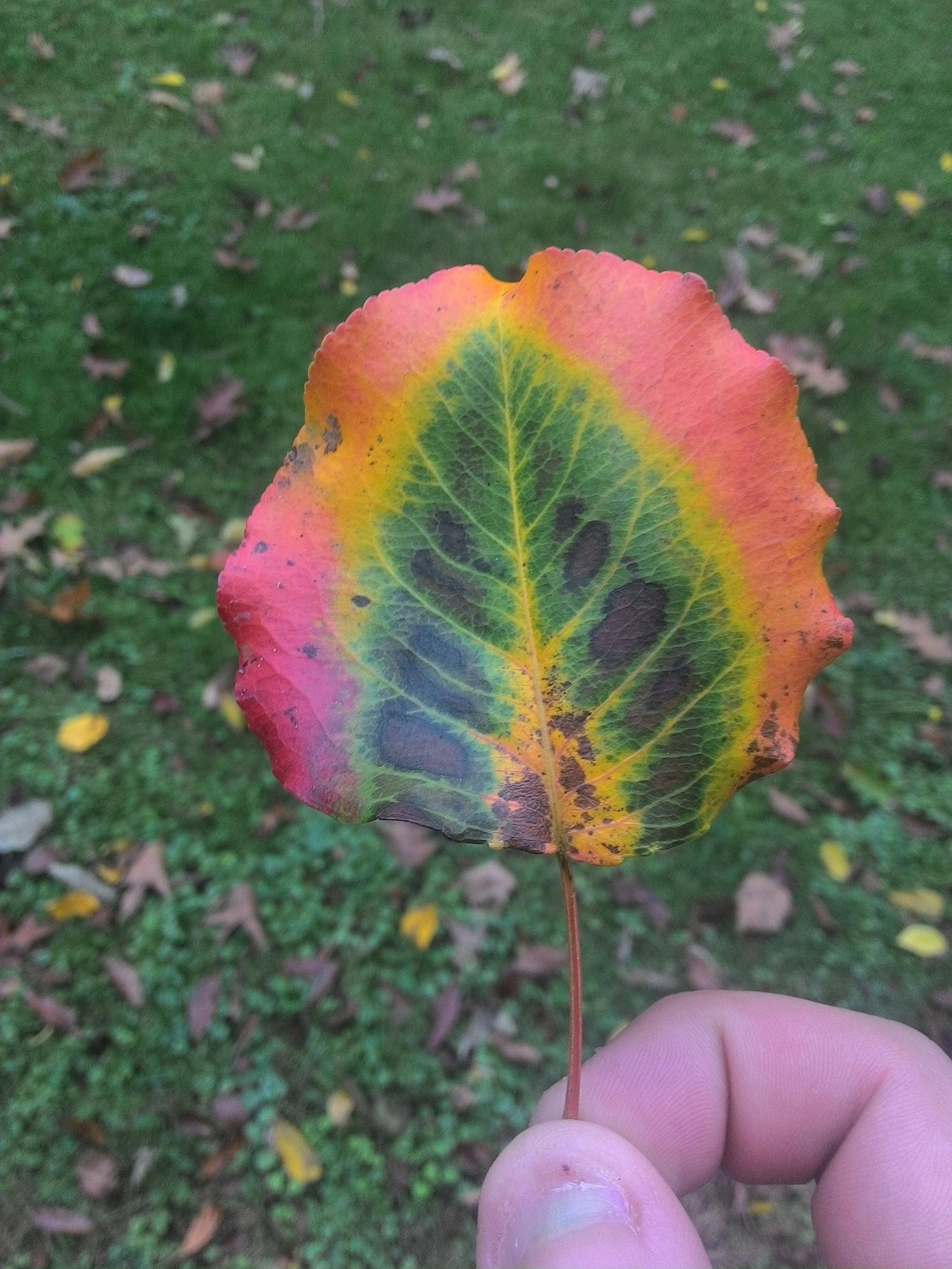 Photo of a multi-colored leaf. For a version with an 11% saturation boost and around 10% increase in contrast, see File:Multi-color leaf without saturation.jpg